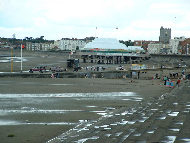 The Beach, Burnham-on-Sea. A traditional British Beach scene - even Donkey rides on the beach